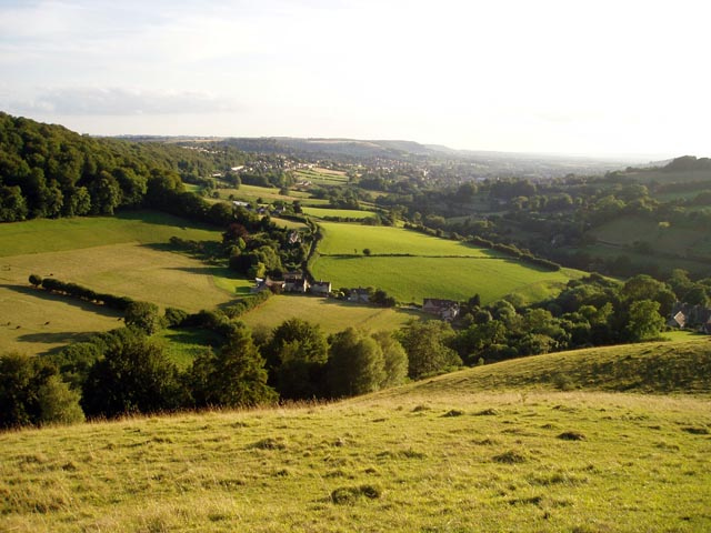 The Vatch from Swifts Hill. Swifts Hill is a nature reserve owned by the Gloucestershire Wildlife Trust, called the Elliot Nature Reserve after the former owners. The Vatch (vatch=valley) is the small cluster of houses directly below; the town of Stroud can be seen beyond.